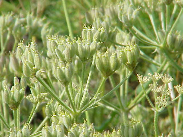 Species: Athamanta cretensis Family: Apiaceae Image No. 2